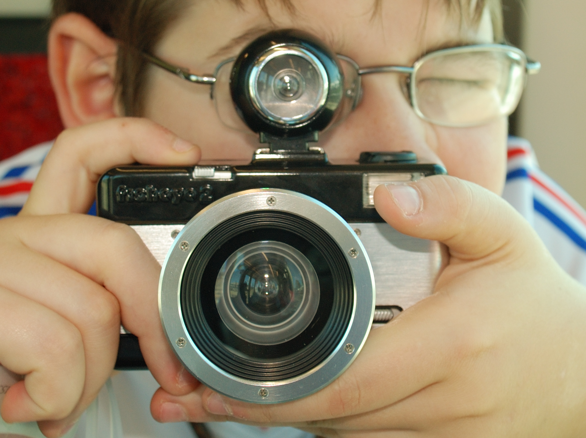 Fisheye 2 : toy camera sells by the Lomographic Society International.